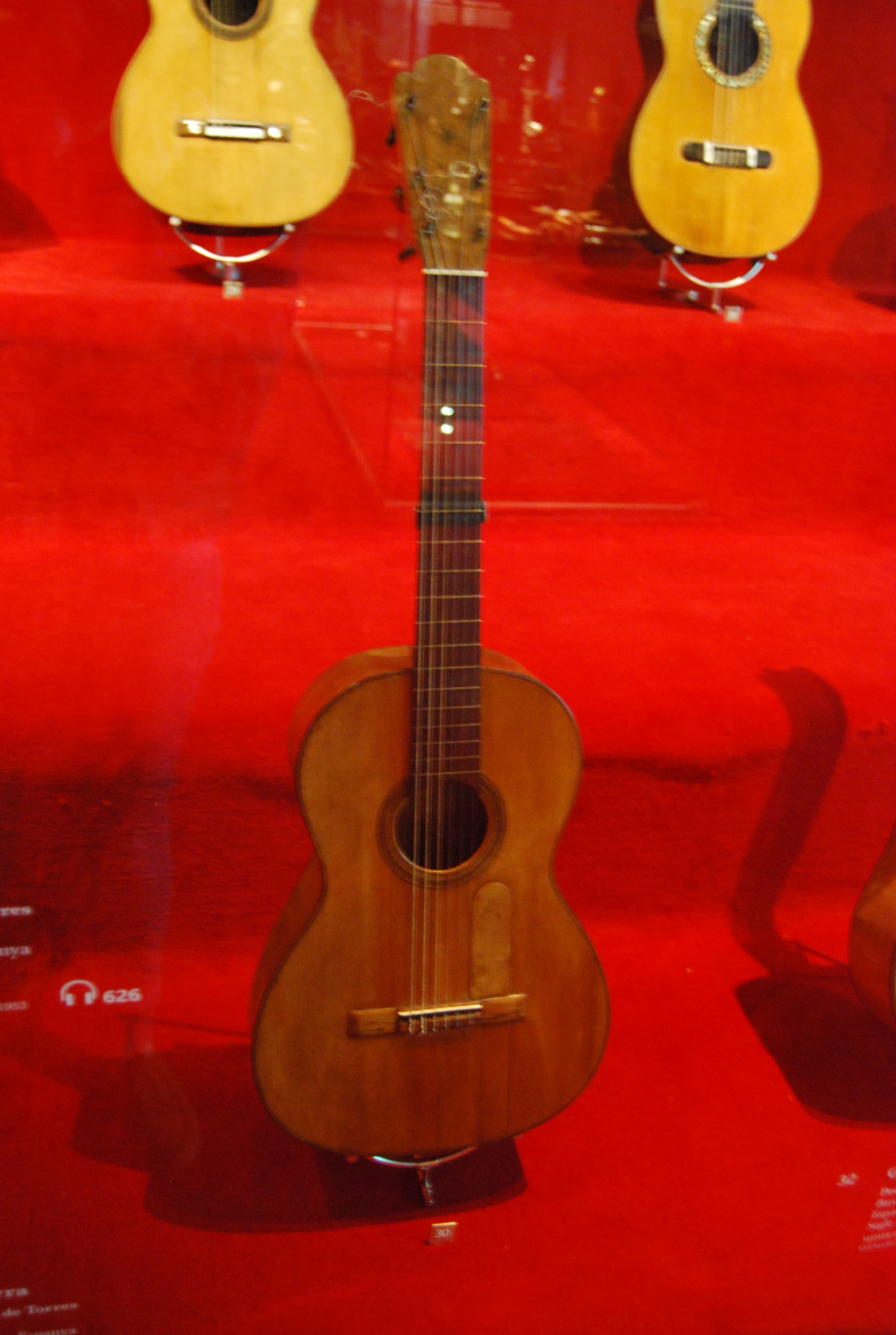 Guitarra de Torres (1862, MDMB 625) References MDMB 625: Guitarra, Antonio de Torres Jurado (1862). Catalogue online, Museo de la Música.